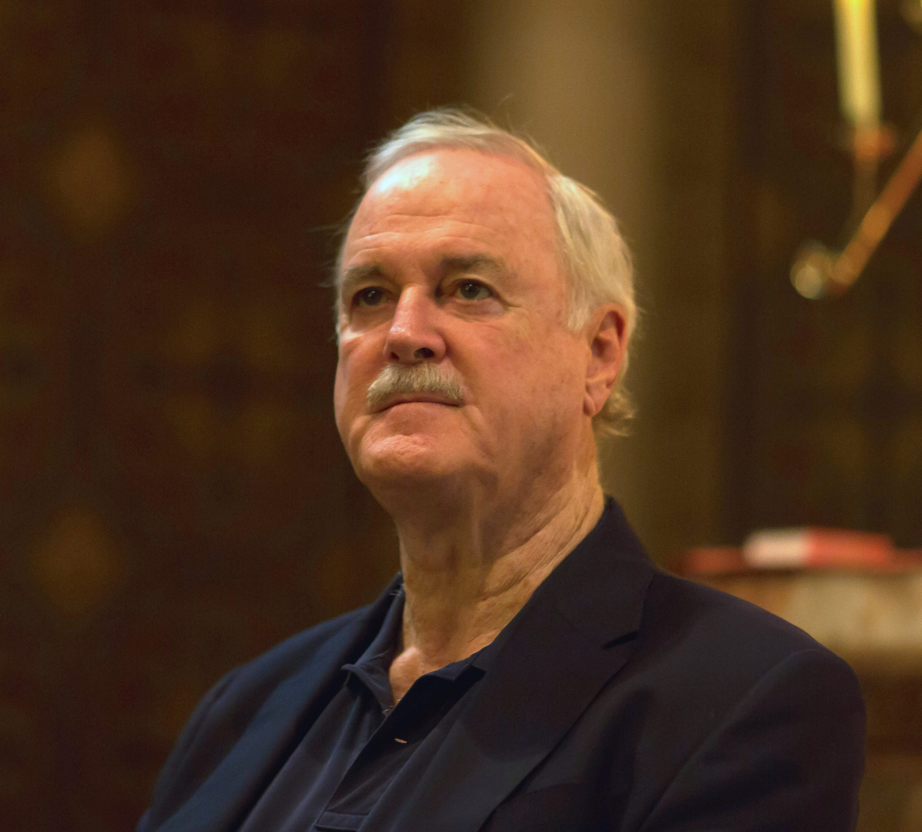 John Cleese at St Patrick's Cathedral, Melbourne